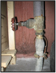 Lead service lines can be connected to the residential plumbing using solder and have a characteristic solder "bulb" at the end, a compression fitting, or other connector made of galvanized iron or brass/bronze.